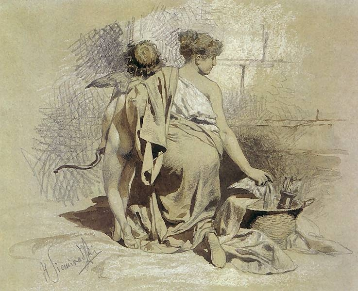 Young Girl with Cupid (drawing by Henryk Siemiradzki)